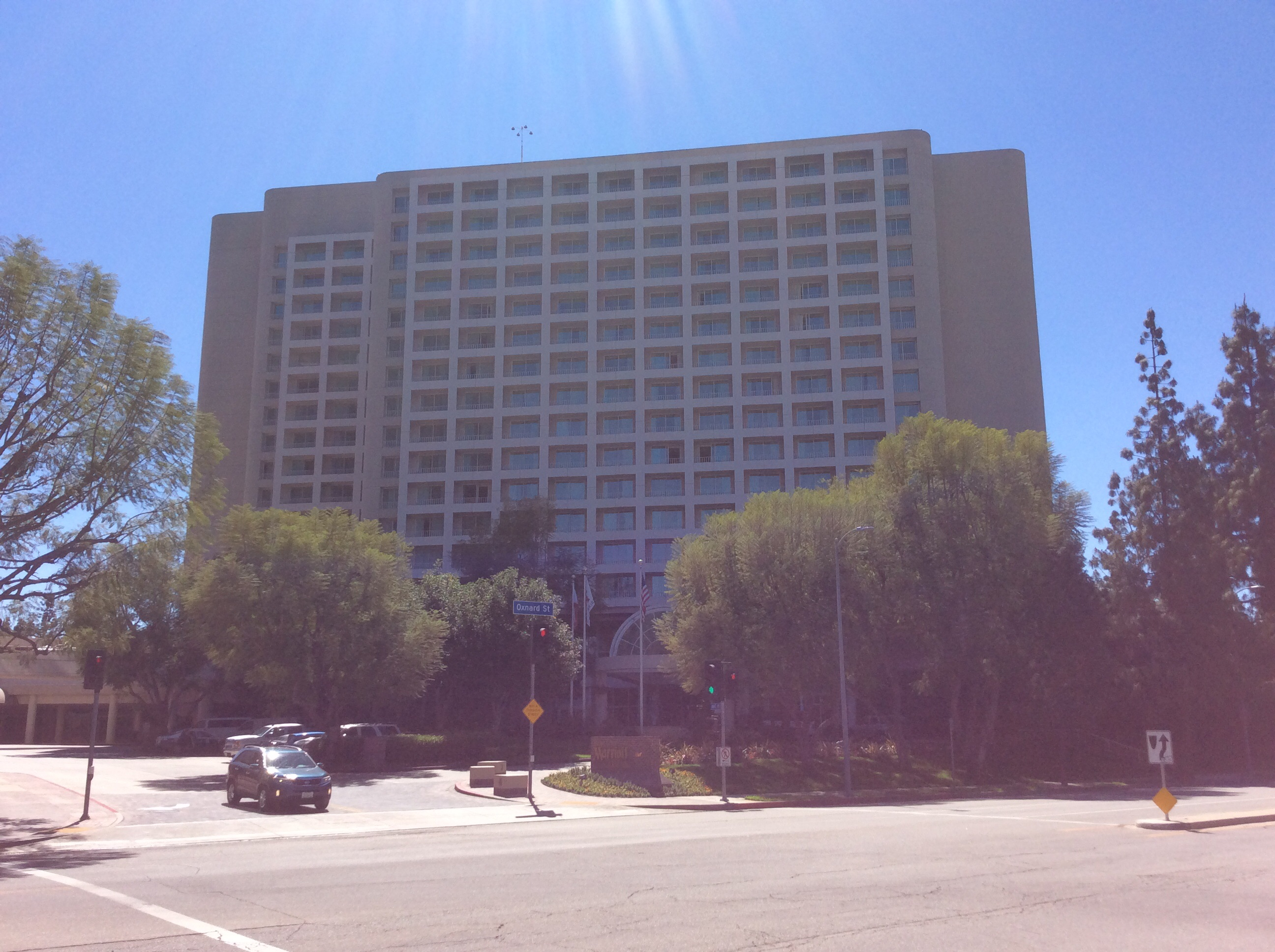 The Marriott Hotel of Woodland Hills, Los Angeles.